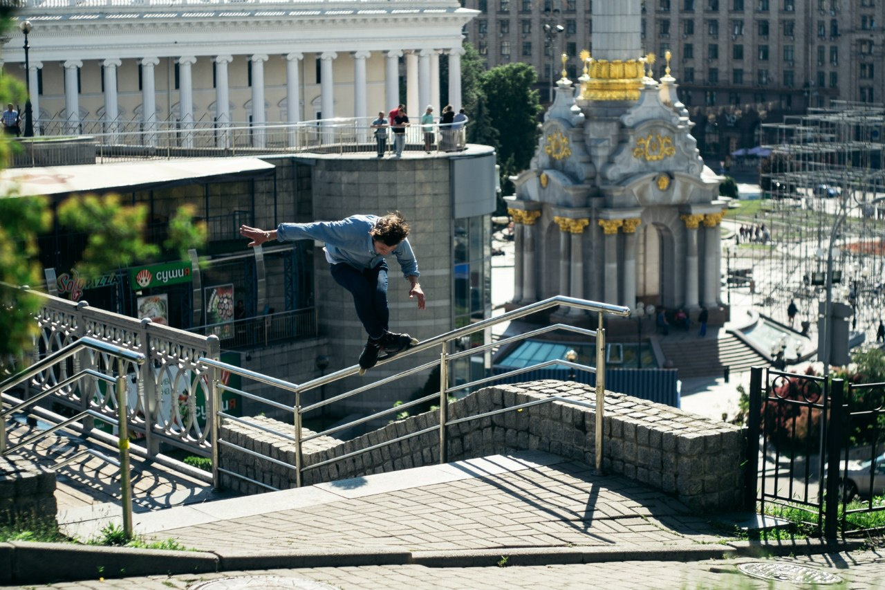 Artyom Khvorostenko - one of the most active rollerbladers in Kiev, doing his rollerblading maneuvers in the heart of Kiev. Trick: Alley-oop Topporn